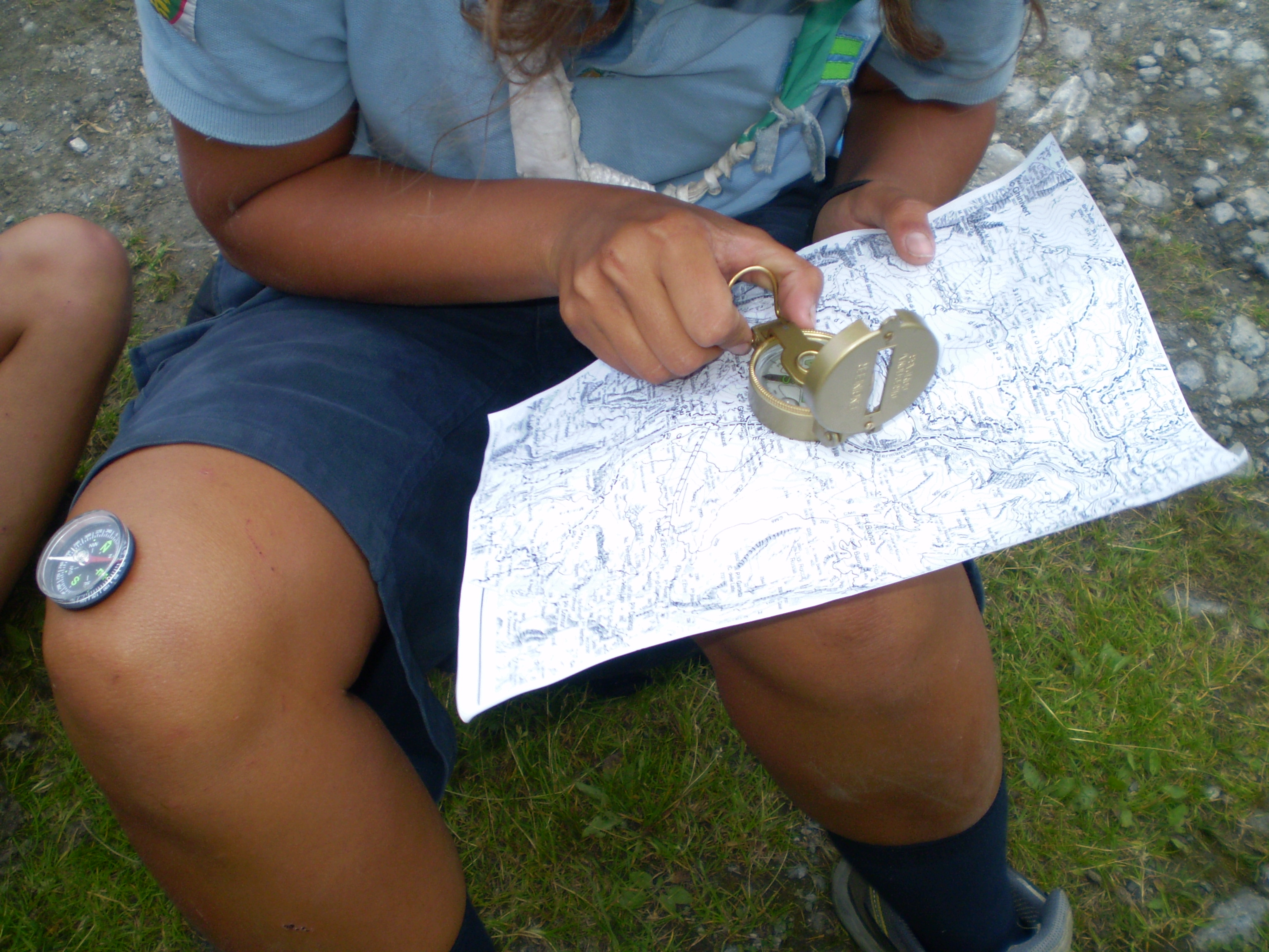 AGESCI guide using a compass in a topography contest